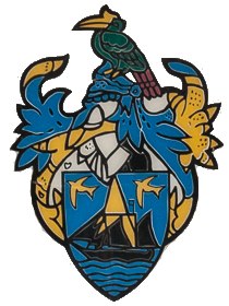 Sandakan Emblem